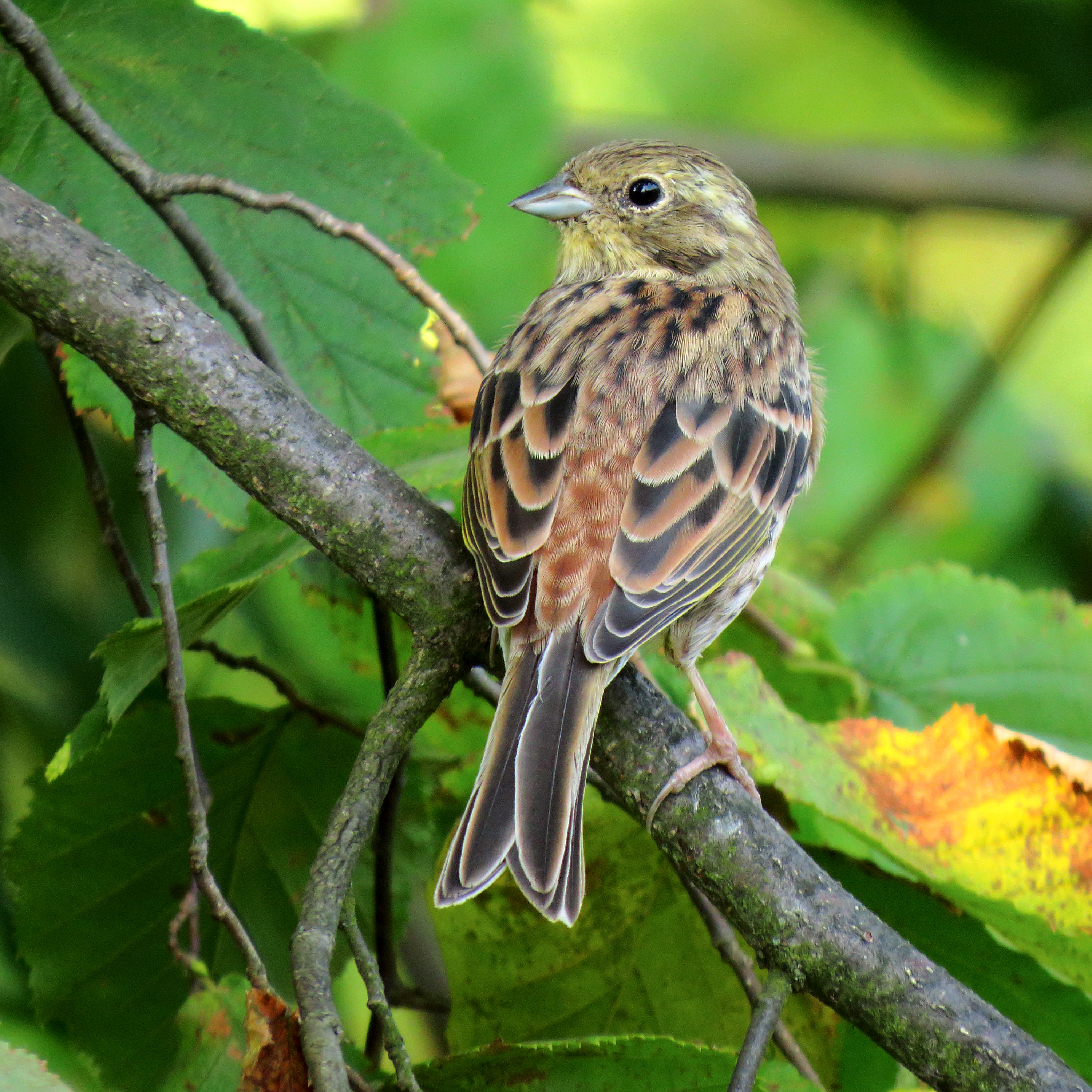 Emberiza citrinella female, in Kamyanka village, Vyshhorod raion, Kiev oblast, Ukraine